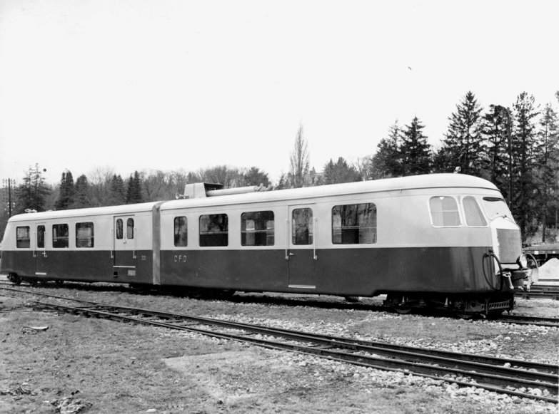 Billard A 150 D2 railcar number 221 to 224 of the CFD du Vivarais, 1939.